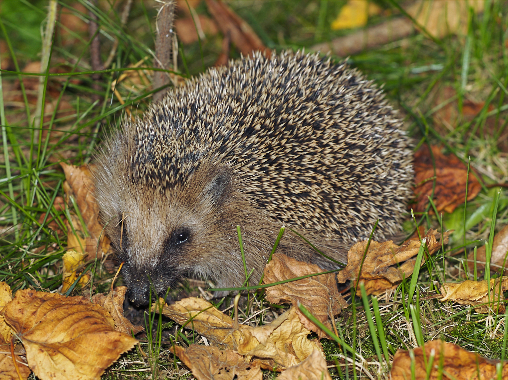 European Hedgehog (Erinaceus europaeus), Chemnitz, Germany